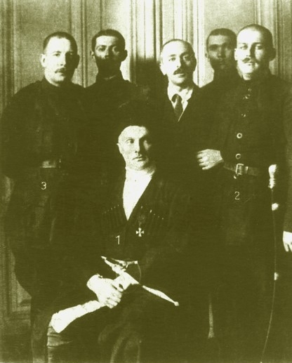 Hetman Pavlo Skoropadskyi (1) with Michael Khanenko (2) and Basil Kochubei (3)